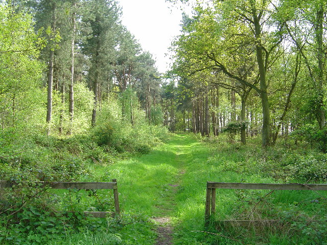 Western entrance to Allerthorpe Common, west of Allerthorpe, East Riding of Yorkshire, England.